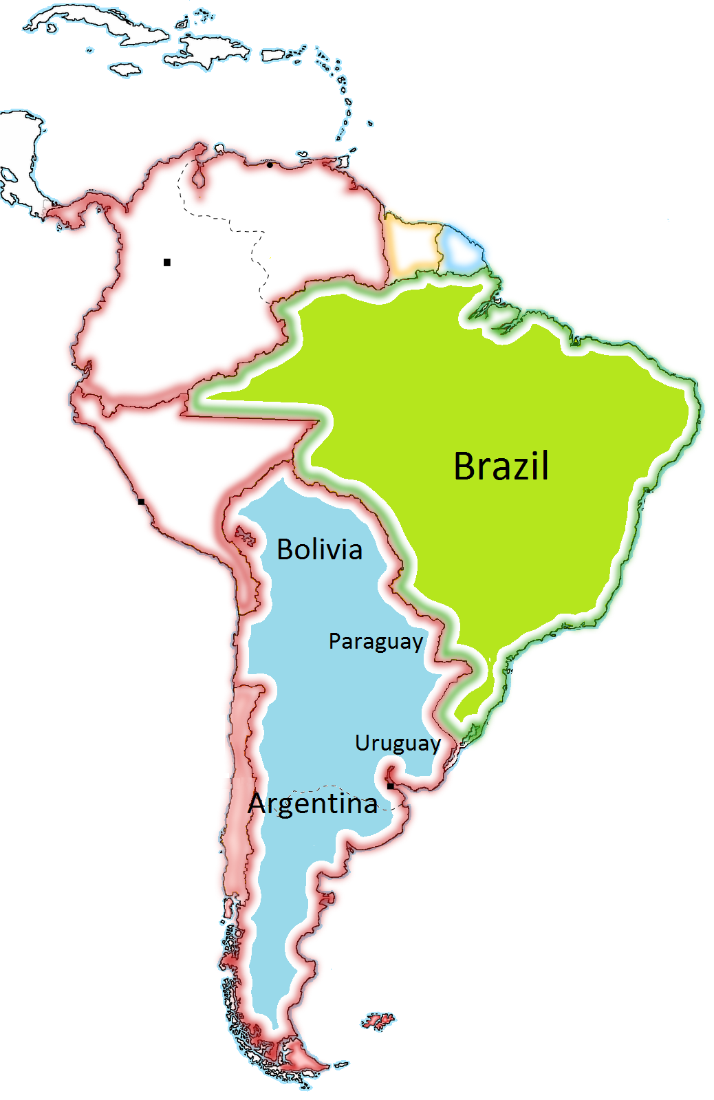 The former Viceroyalty of the Río de la Plata in blue and Brazil in green. Taken as a model File:Mapa Virreinato Rio de la Plata.png made by Jluisrs.